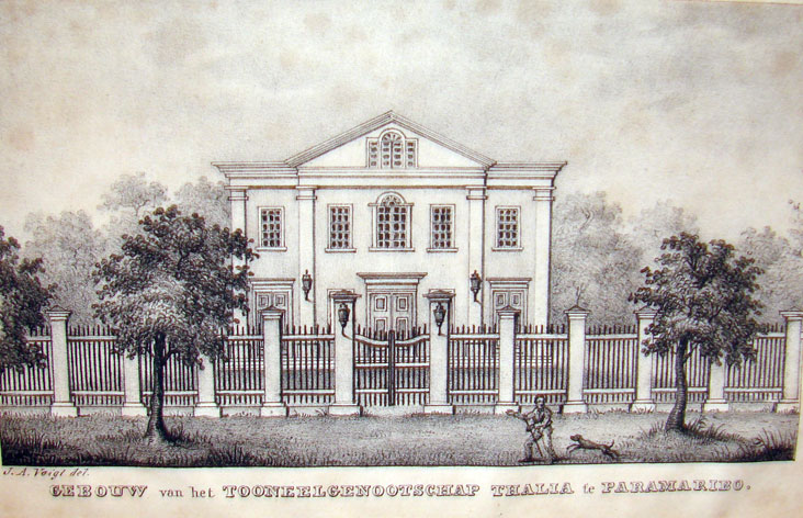 Thalia's theater